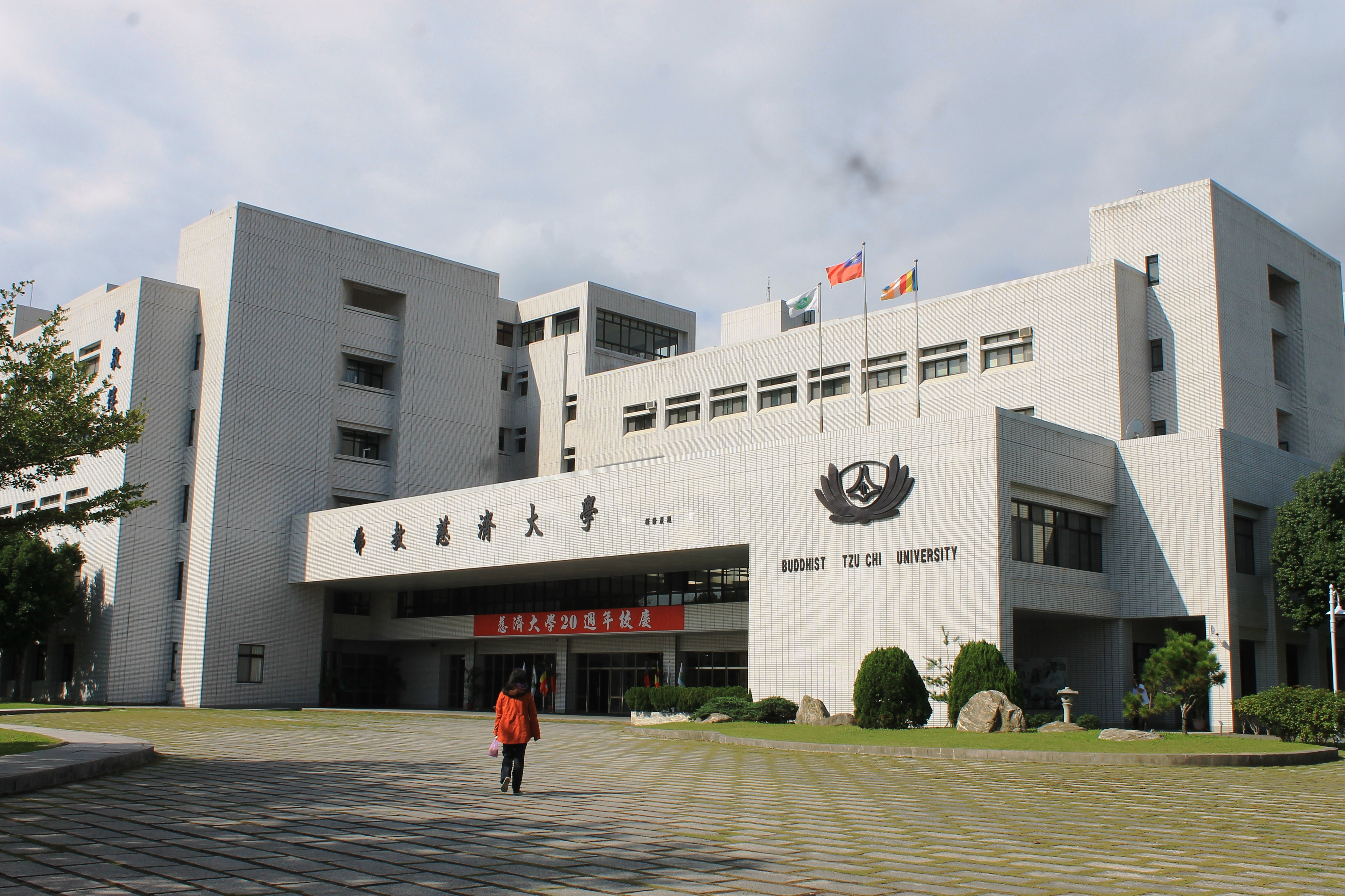 Buddist Tzu Chi University building as seen from the main gate.